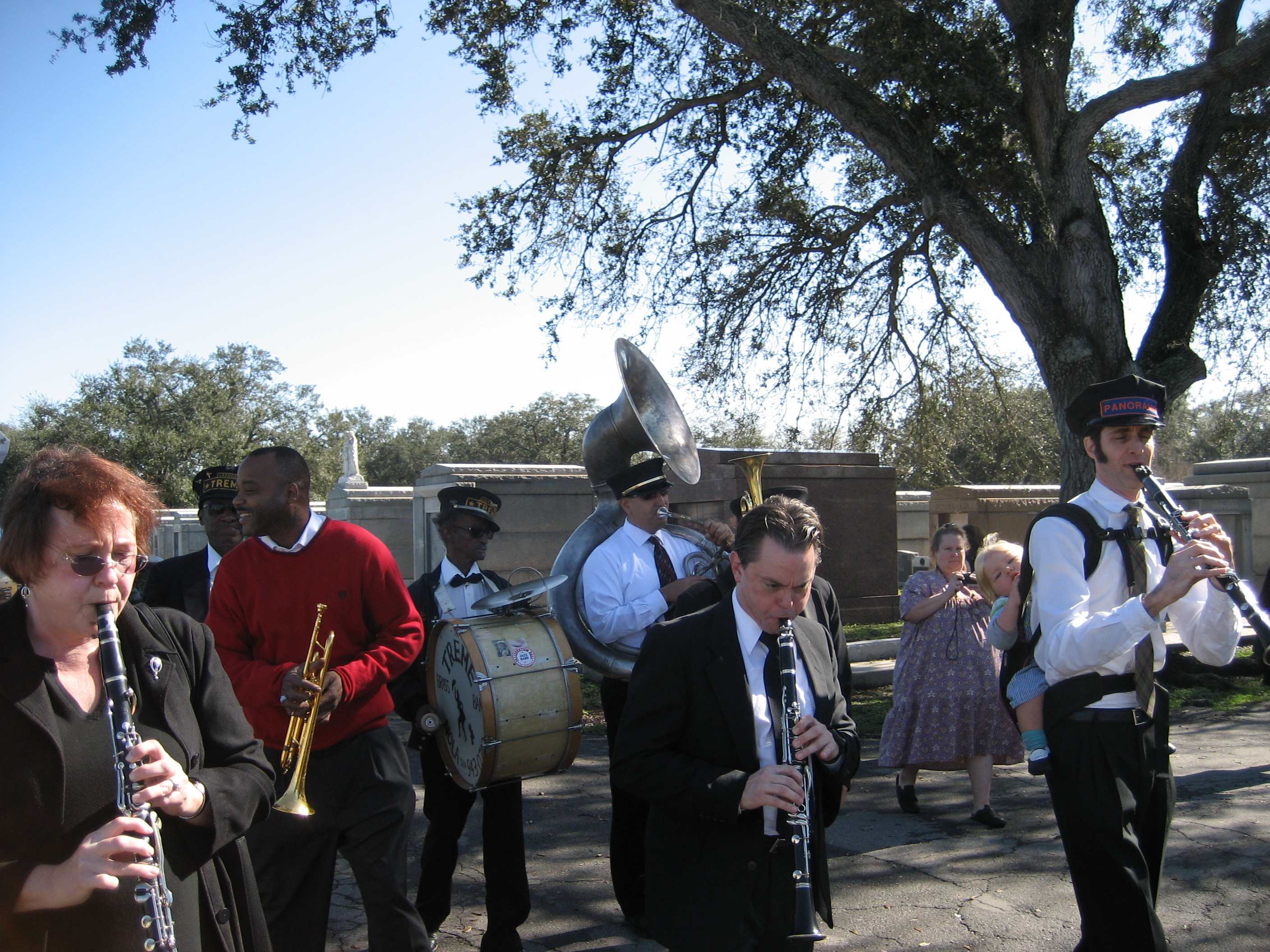 Musicians at funeral procession of music historian Tad Jones, Metaire Cemetery, New Orleans. Visible musicians include Sue Fischer, clarinet left; Ben Schenck, clarinet right; James Andrews, trumpet; Lionel Batiste, bass drum. Photo by Infrogmation